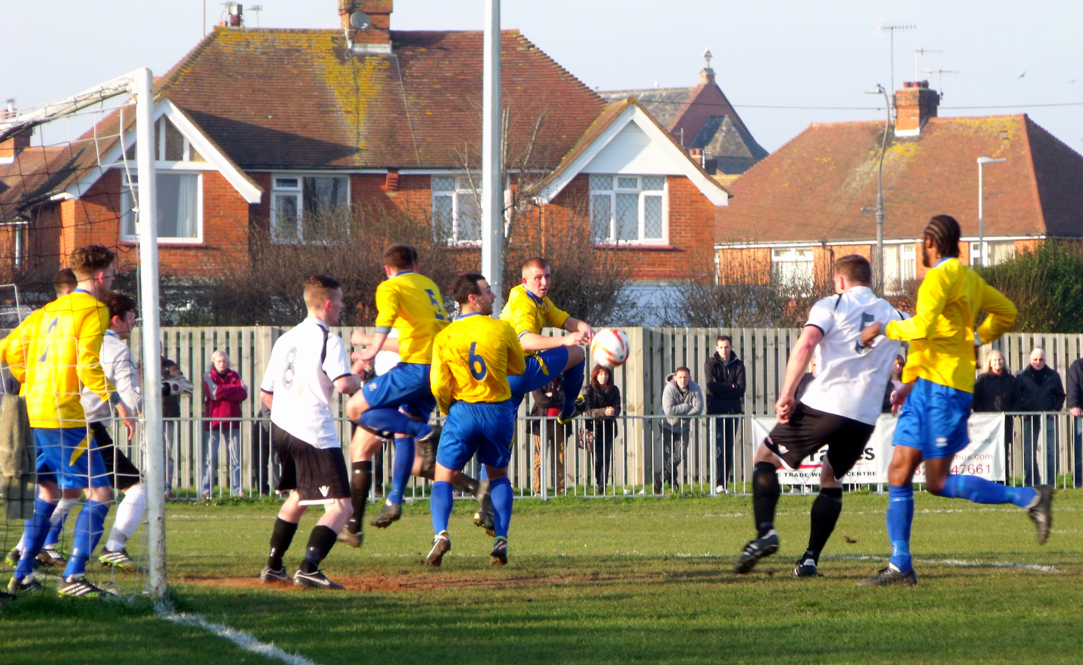 United press in the second half for a winner.